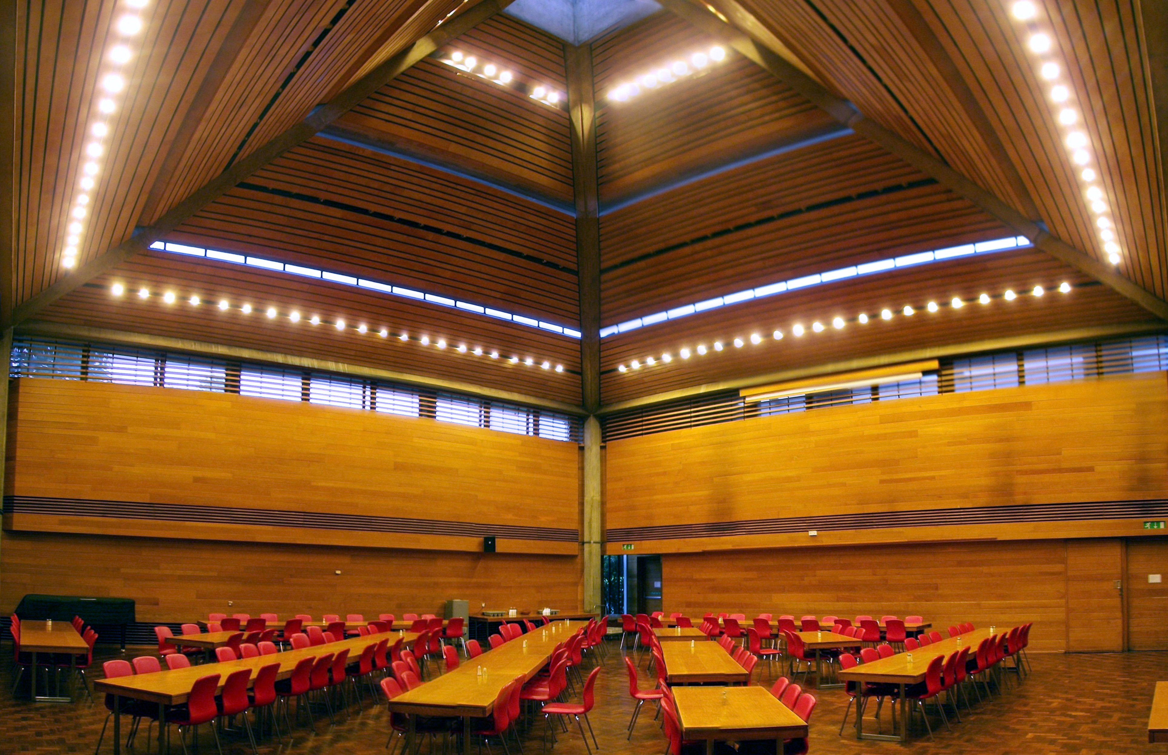 Photo of the dining hall of Wolfson College, Oxford (UK). The hall has a pyramid shaped roof. This image is a stitching of five separate photos, using Autostitch.